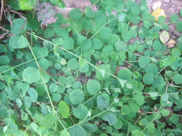 Drymaria cordata found in Panchkhal Valley, Nepal.